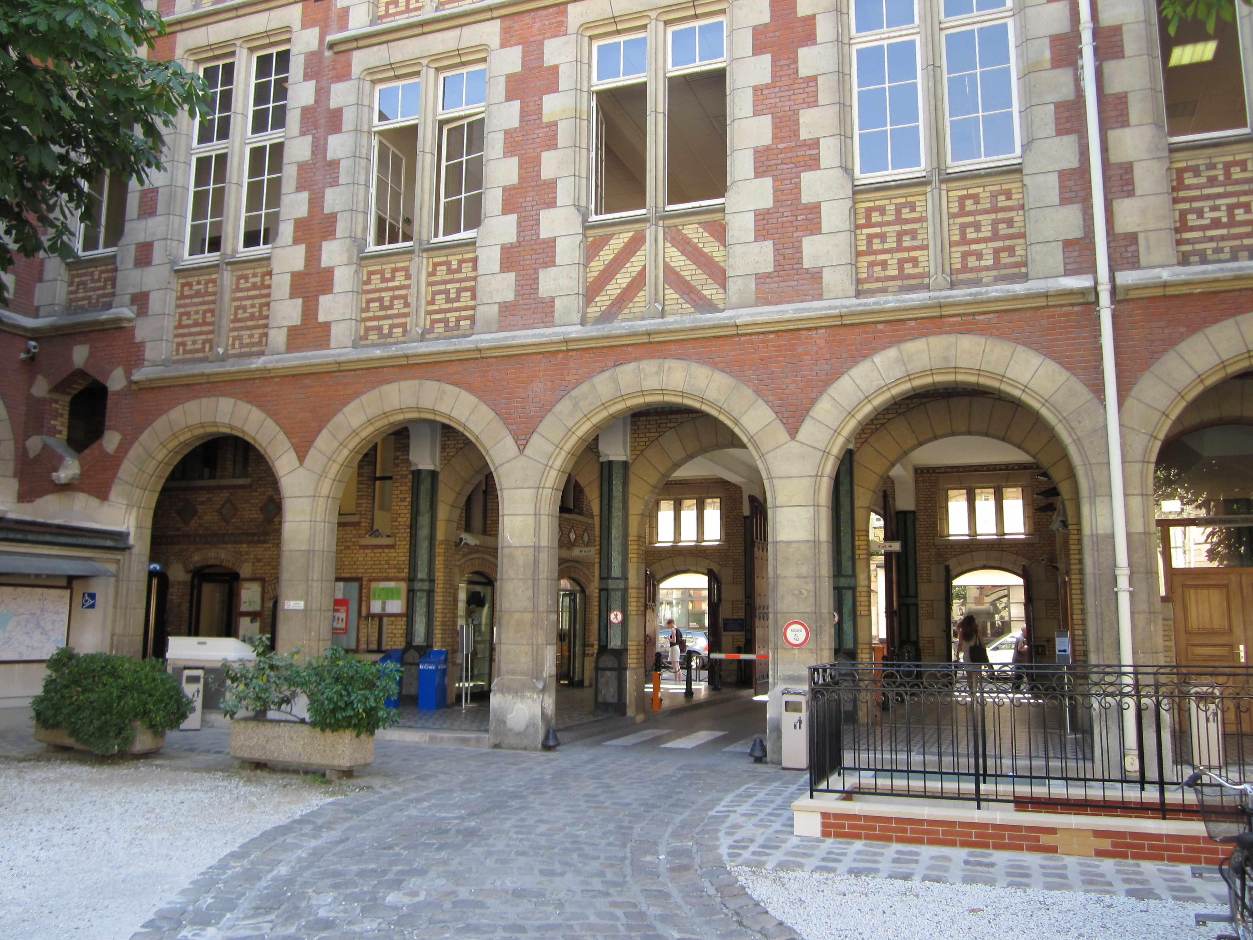 Catholic Institute of Paris, 21 Rue d'Assas, Paris, France.